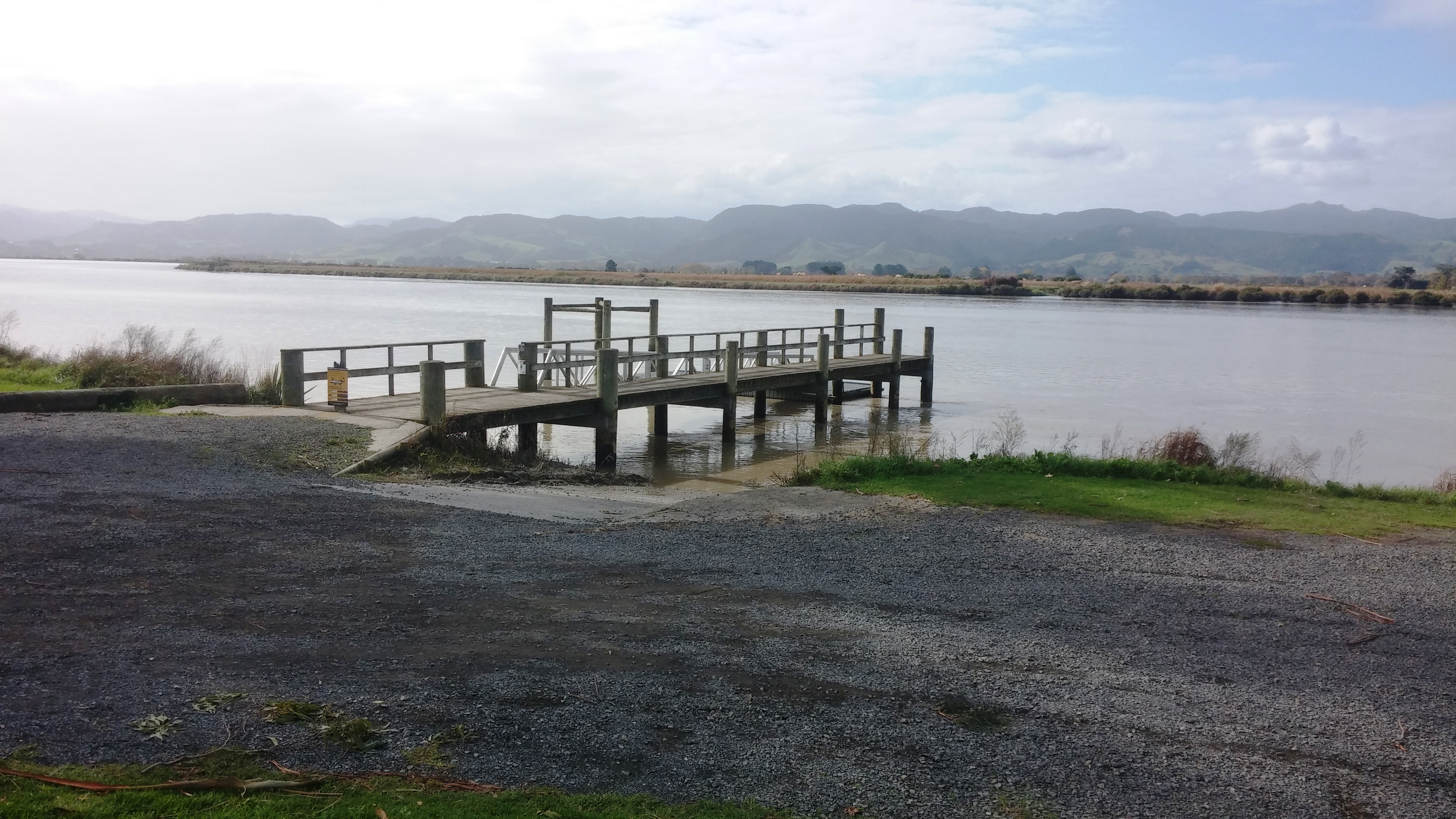 Wharf at Turua, on the Waihou River, Hauraki District, New Zealand